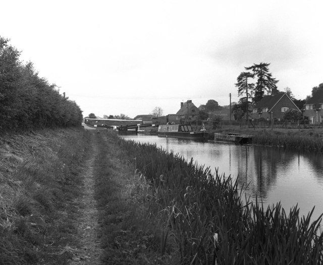 After clearing Wootton Rivers Bottom Lock, the westward-bound boatman will enjoy a long lock-free pound in which to prepare himself for the shock to his system which is waiting for him at Devizes. Wootton Rivers Bridge carries a minor metalled road.